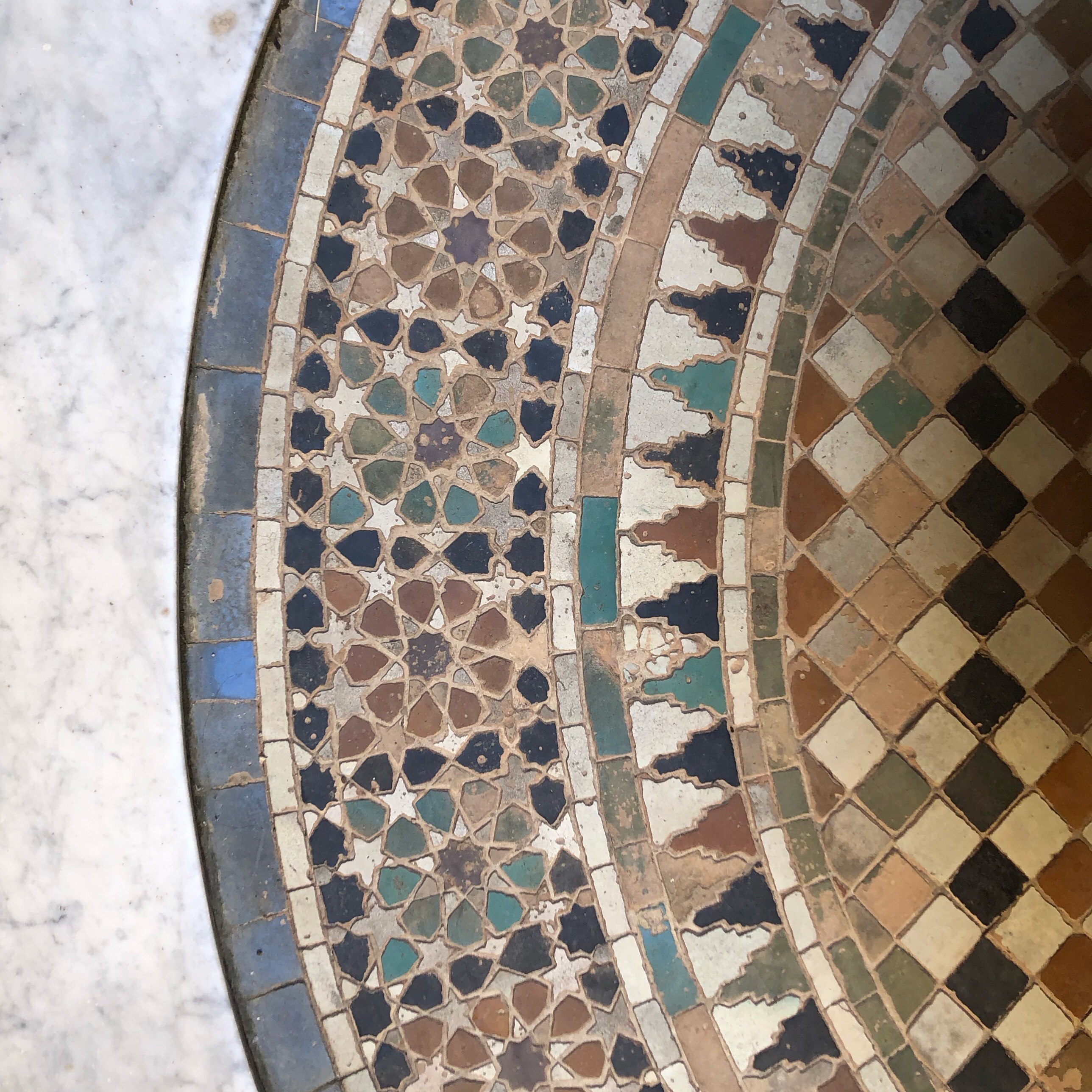 Medersa El-Attarine sanae:270001